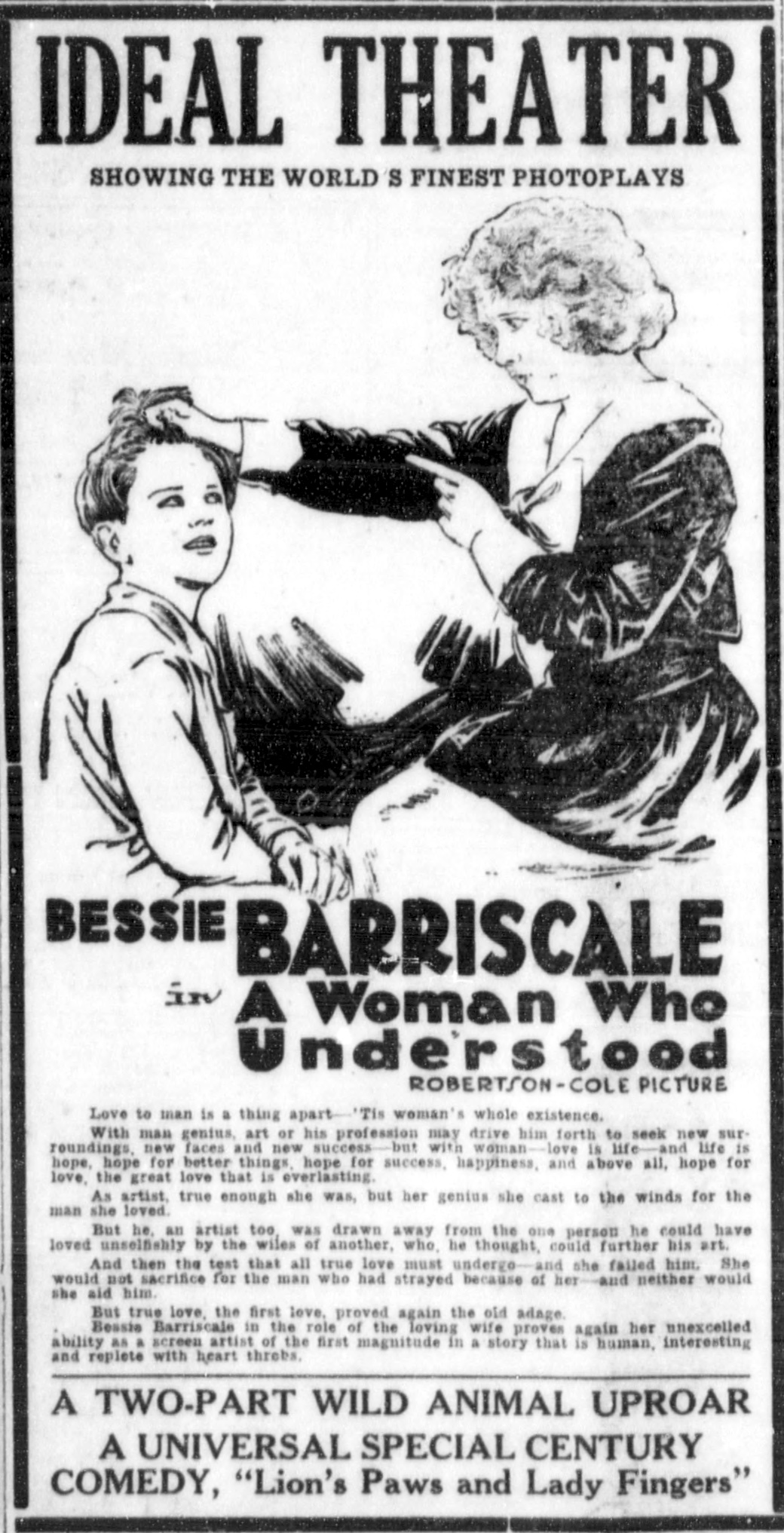 A Woman Who Understood is a lost 1920 silent film drama produced and distributed by Robertson-Cole Productions. It starred Bessie Barriscale. This is a newspaper advertisement for the film.